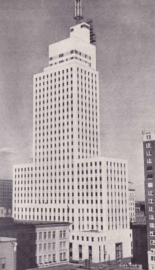 Early photo of Mercantile National Bank building in Dallas, Texas